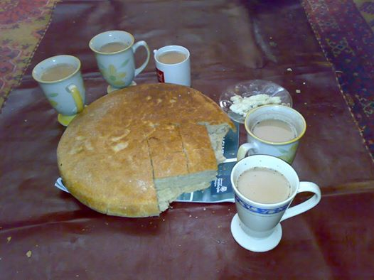 Chitrali tikki bread sevred with milk tea.